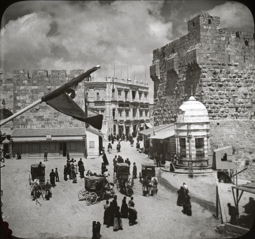 Image Title: Jaffa Gate from Outside Image Description from historic lecture booklet: "The Jaffa gate is the only gate on the western side of Jerusalem. It is so called because through it passes the road and the traffic to and from Jaffa. It is one of eight gates in the city wall, of which one, the golden Gate, had long been walled up. the Jaffa gate is called by the Moslem, Bab el-Khalil, that is Gate of the Friend (of God) - Abraham, because from this gate is the road to Hebron where Abraham lived. The scene is liveliest on Sunday, and on Friday --- the holy day of the Mohammedans. Then the Jaffa road appears as the principal promenade of the natives." Original Format: Lantern slides Original Collection: Visual Instruction Department Lantern Slides Item Number: P217:set 010 025 Restrictions: Permission to use must be obtained from the OSU Archives. Click here to view The Best of the Archives. Click here to view Oregon State University's other digital collections. We're happy for you to share this digital image within the spirit of The Commons; however, certain restrictions on high quality reproductions of the original physical version may apply. To read more about what “no known restrictions” means, please visit the OSU Archives website.